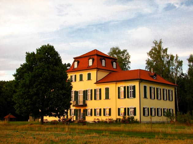 Fasanerie, Hermannsfeld (Rhönblick), Thuringia